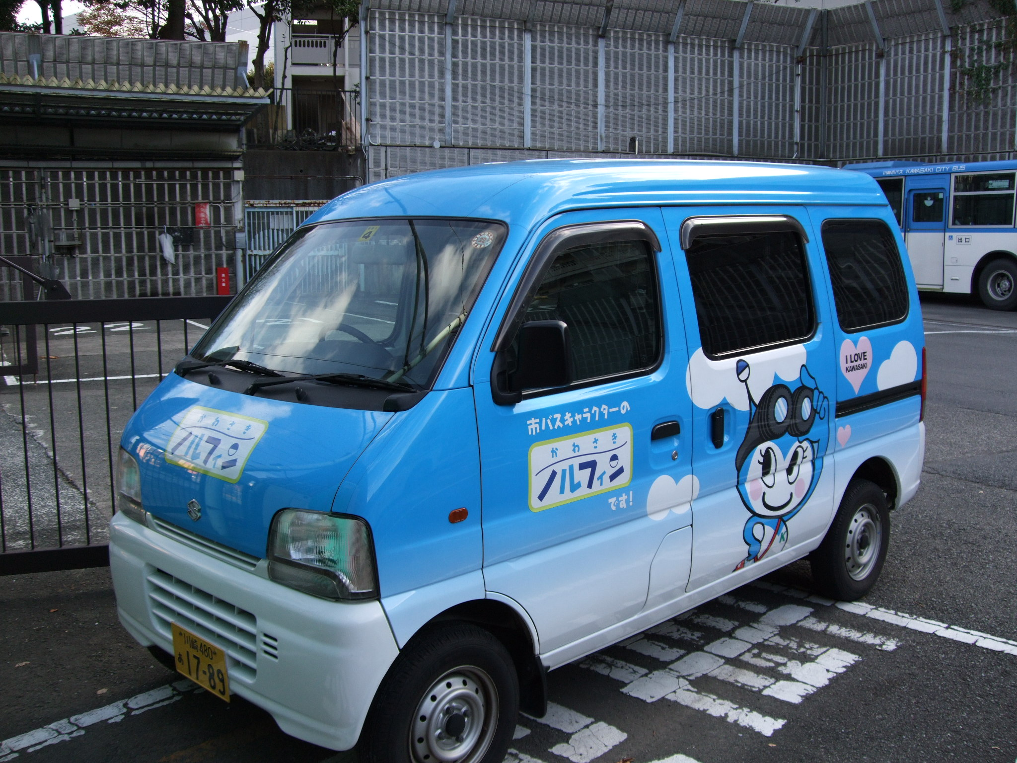 Workcar of Kawasaki city bus